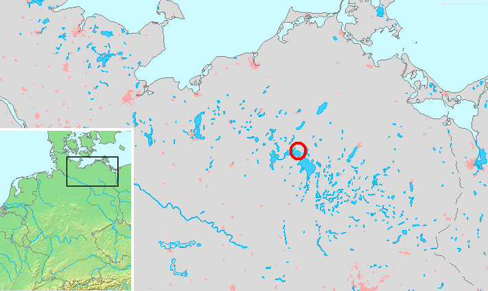 Locator maps of lakes in Germany : Location Kolpinsee.PNG